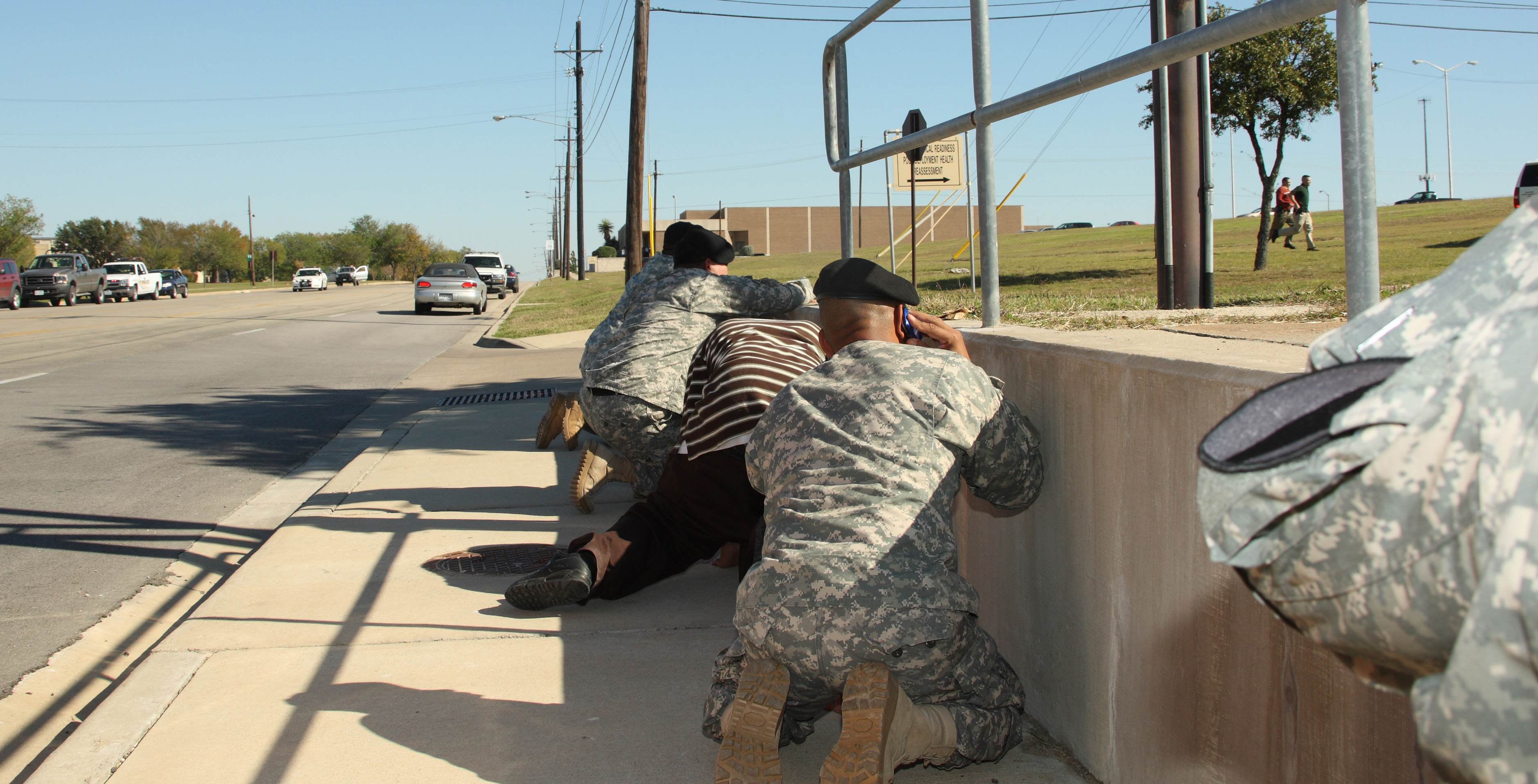 Bystanders crouch for cover as shots rang out from the Soldier Readiness Processing Center on Fort Hood, Texas, Nov. 5, 2009, as law enforcement officers run toward the sound of the gun. A lone gunman killed 13 people and wounded 30 more in the incident. U.S. Army photo by Jeramie Sivley See more at